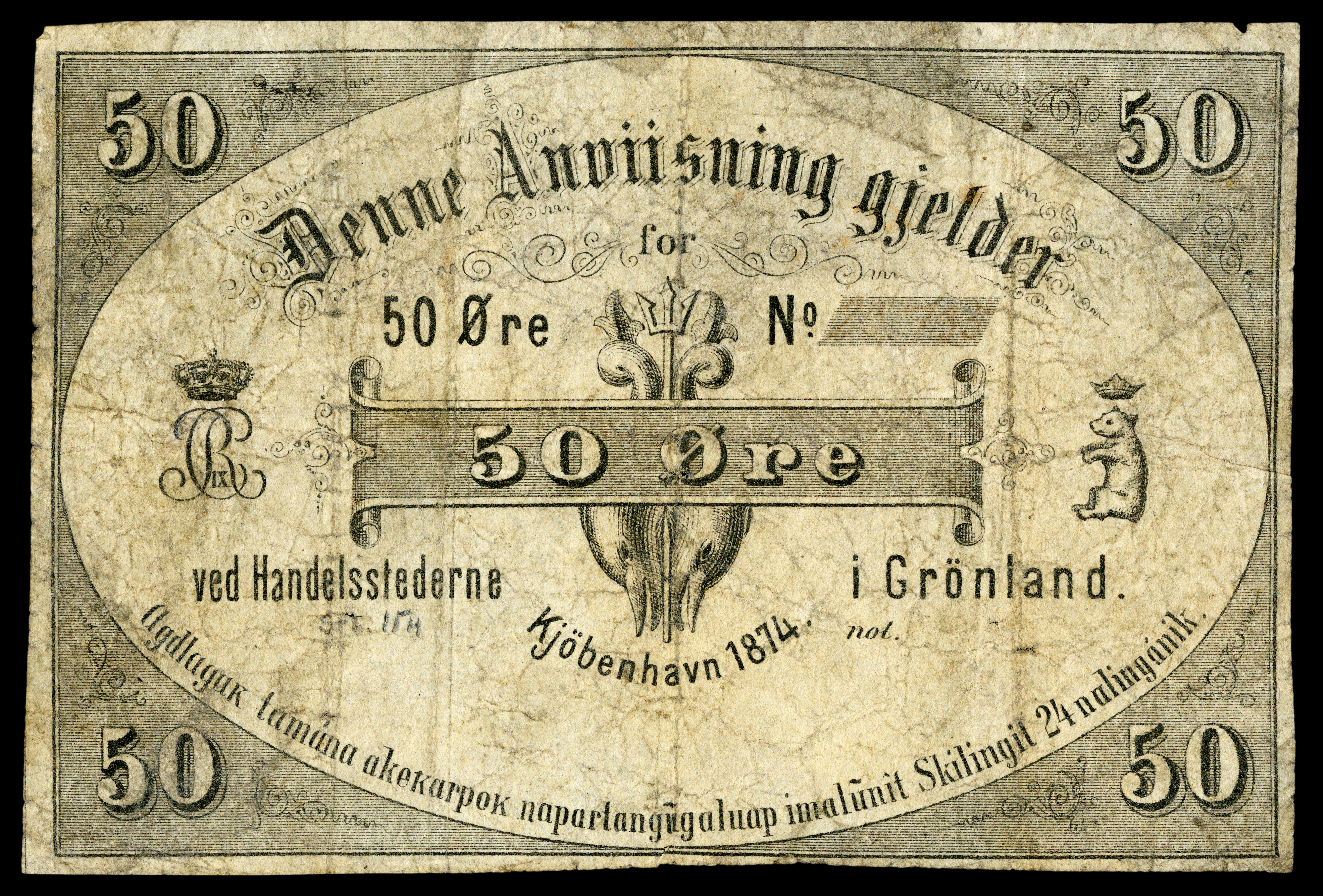 Greenland, 50 Øre (1874), first year of issue for the Greenlandic krone. The uniface note (valued at half a krone) was issued in Denmark for use in Greenland. The note depicts the royal monogram of Christian IX of Denmark on the left and a small crowned polar bear on the right. More recent issues (just shy of being free of copyright) depict a larger polar bear.